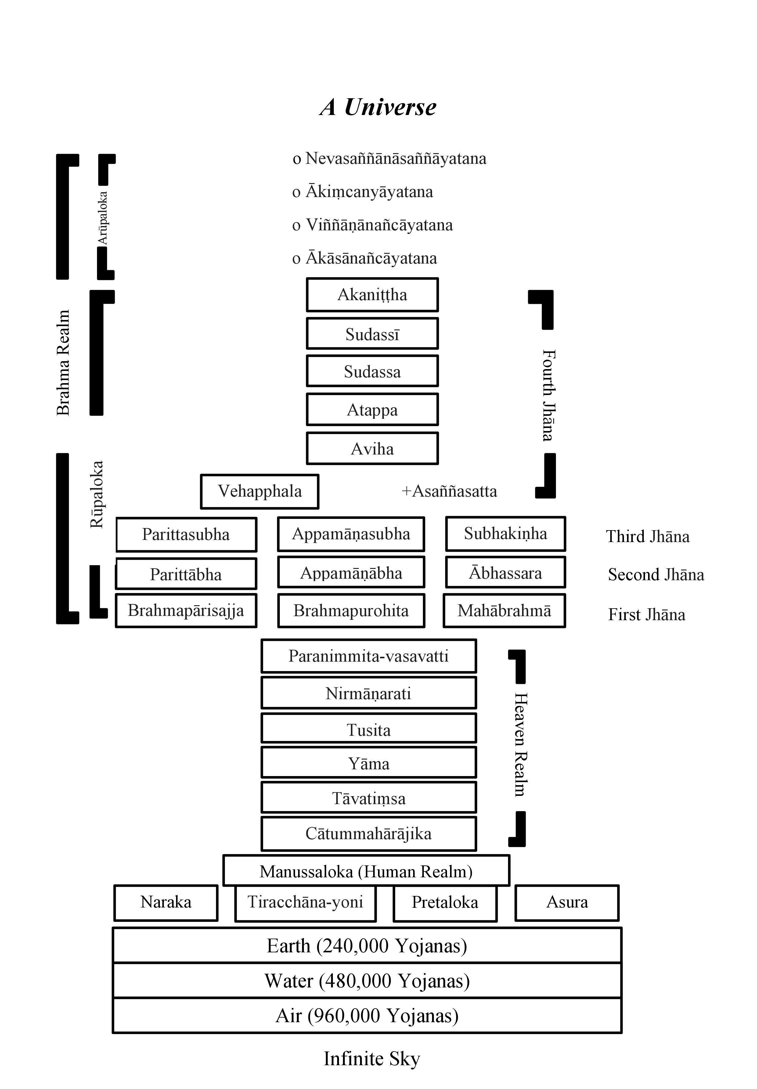 31 Planes of existence as per Burmese interpretation မြန်မာဘာသာ: ၃၁ ဘုံ ပါဝင်သော စကြာဝဠာတစ်ခုကို အင်္ဂလိပ်ပါဠိဘာသာဖြင့်ပြပုံ